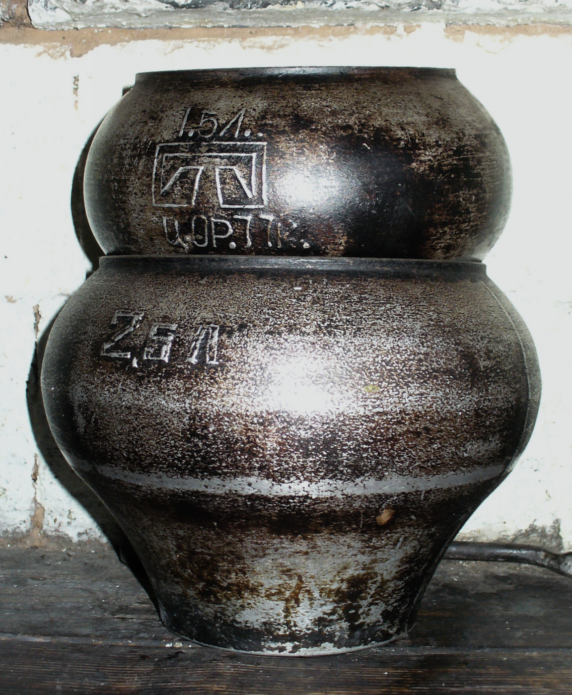 Aluminum chuguns